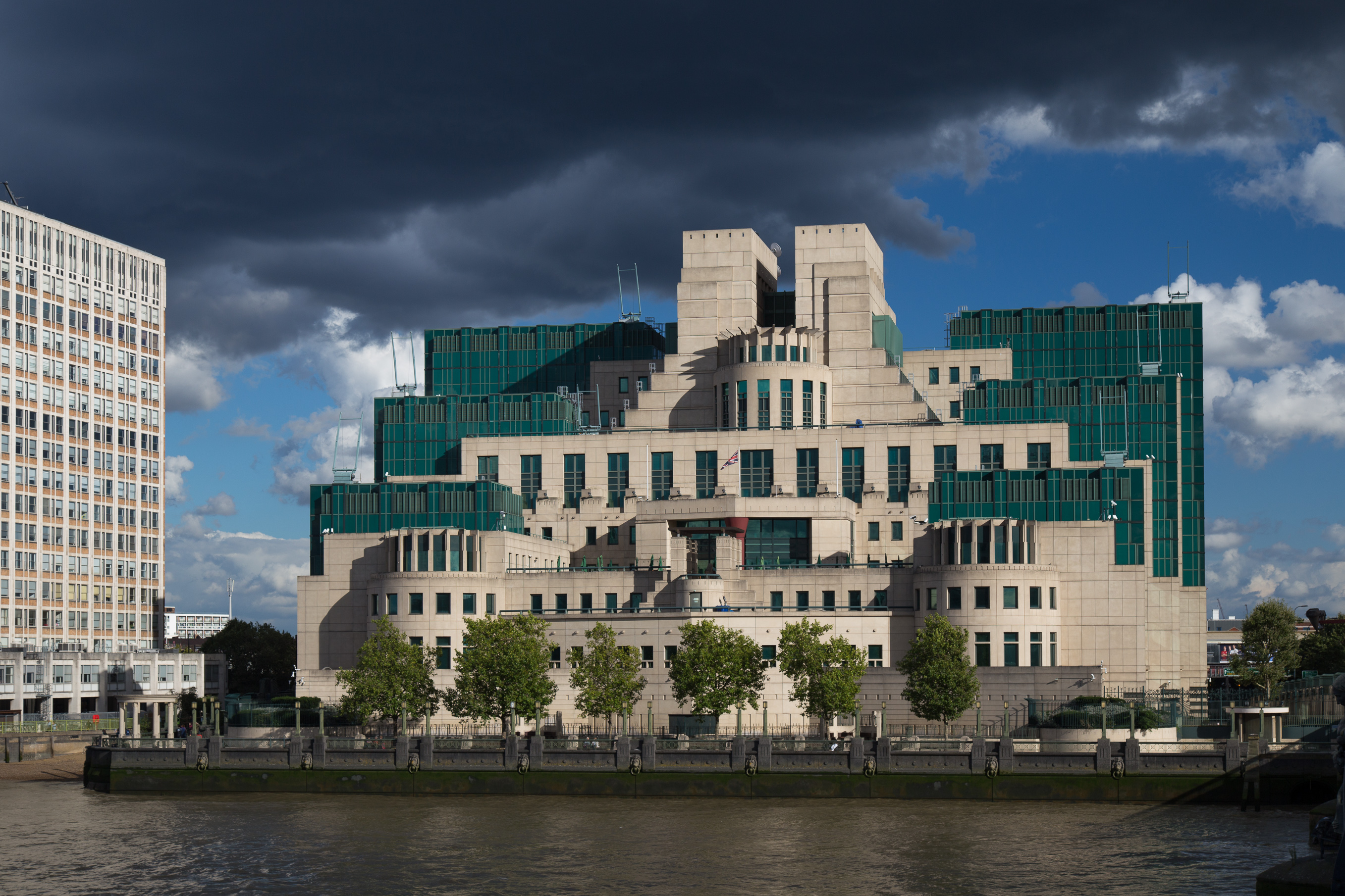 The SIS Building (or MI6 Building) at Vauxhall Cross, London, houses the headquarters of the British Secret Intelligence Service (SIS, MI6)